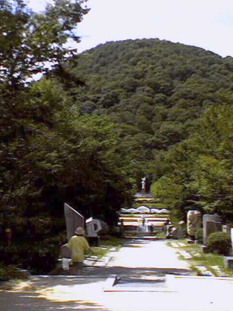 A Picture of Mount Kabutoyama.